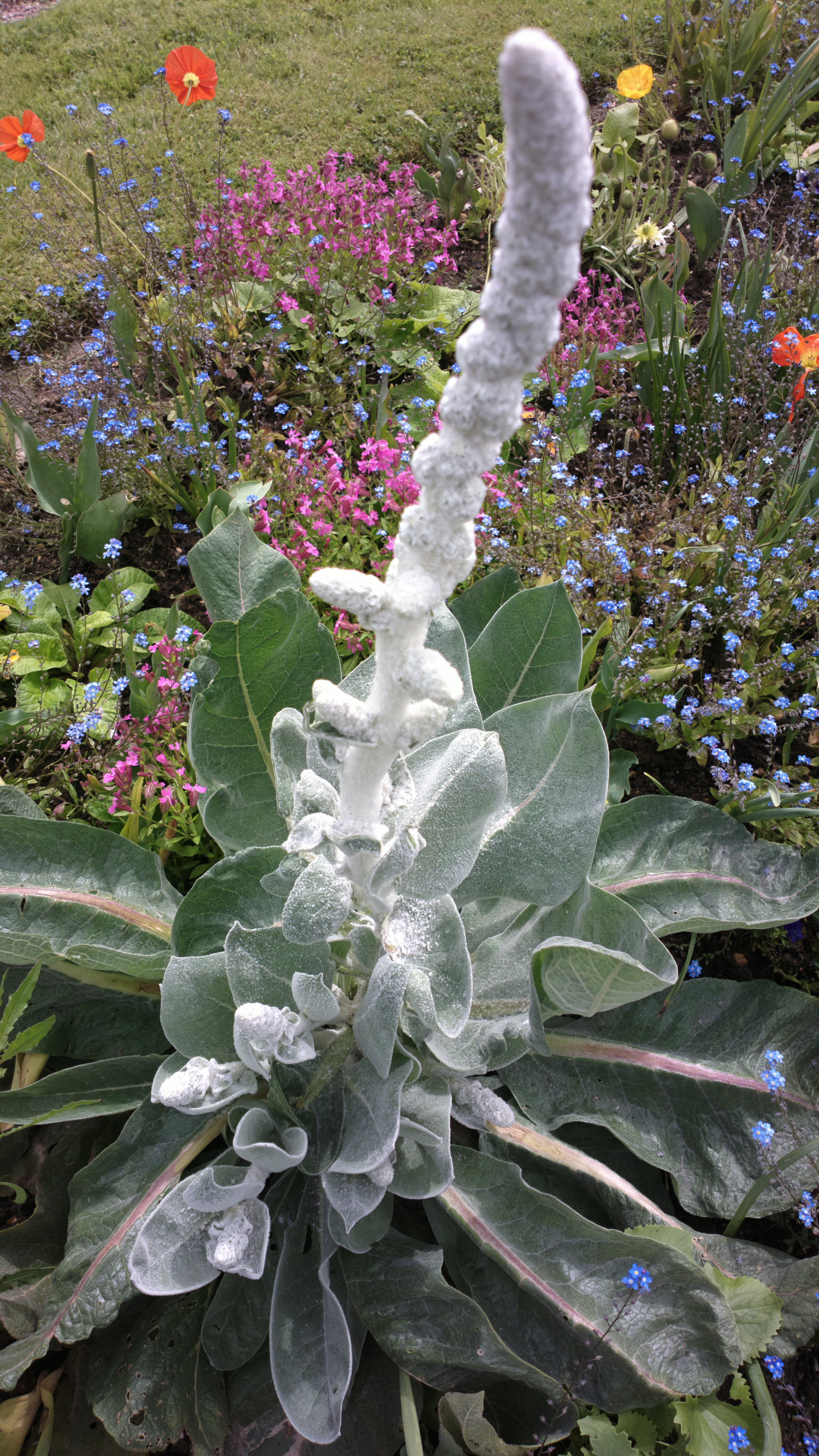 Salvia sclarea, clary, or clary sage, is a biennial or short-lived herbaceous perennial in the genus Salvia. It is native to the northern Mediterranean, along with some areas in north Africa and Central Asia